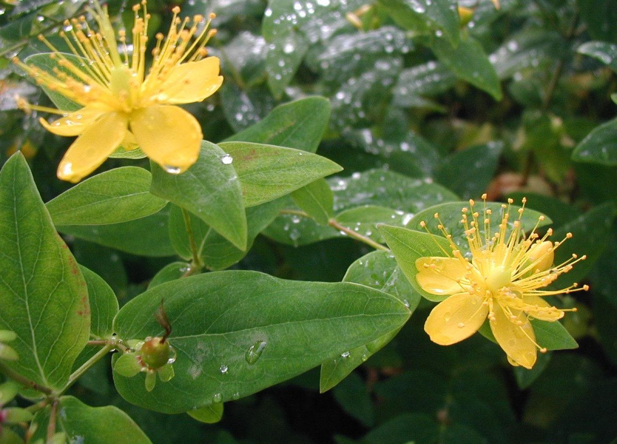 Hypericum hircinum: Flowers and leaves. Natural habitat on Corsica.